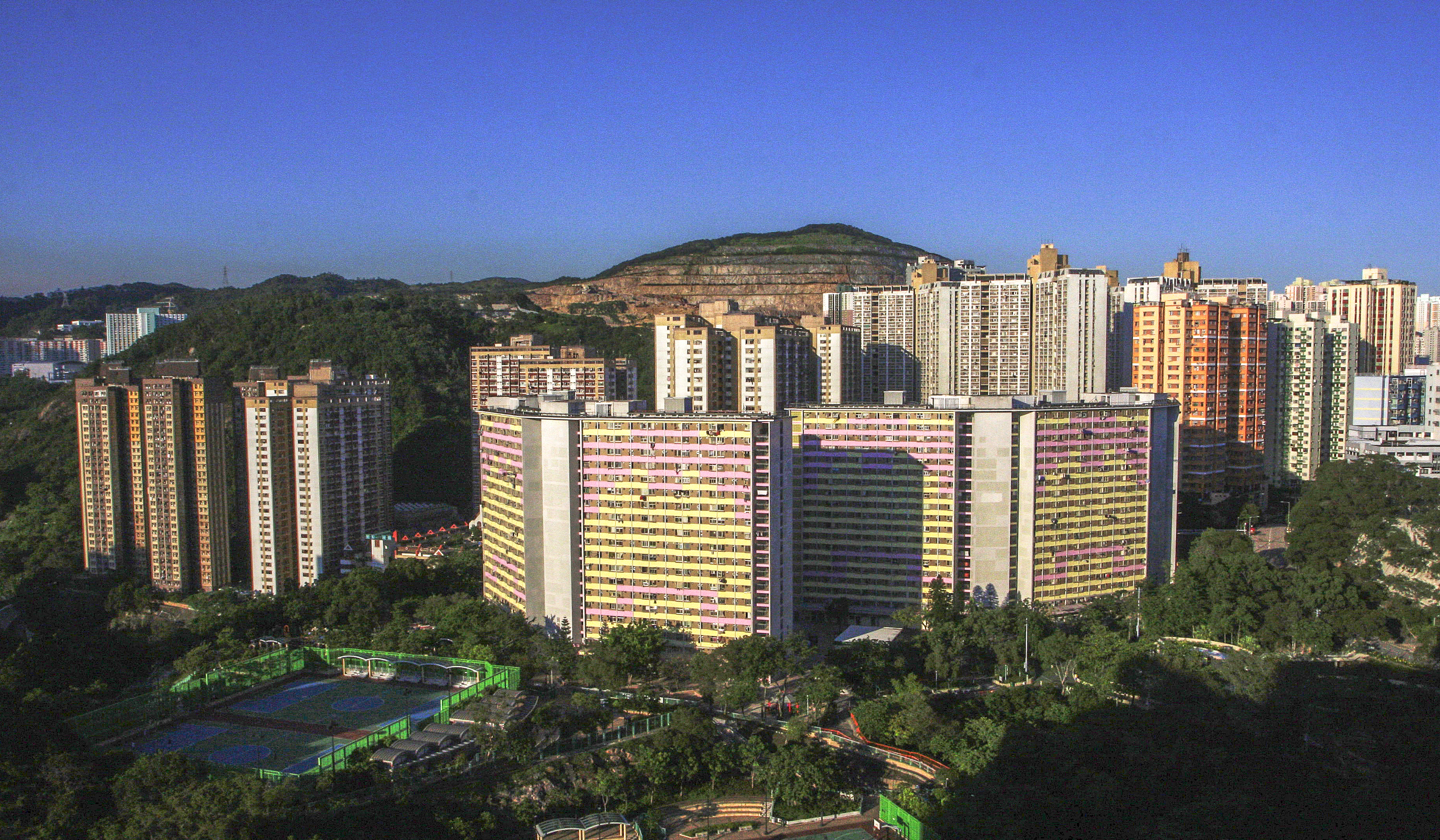 Lok Wah Estate